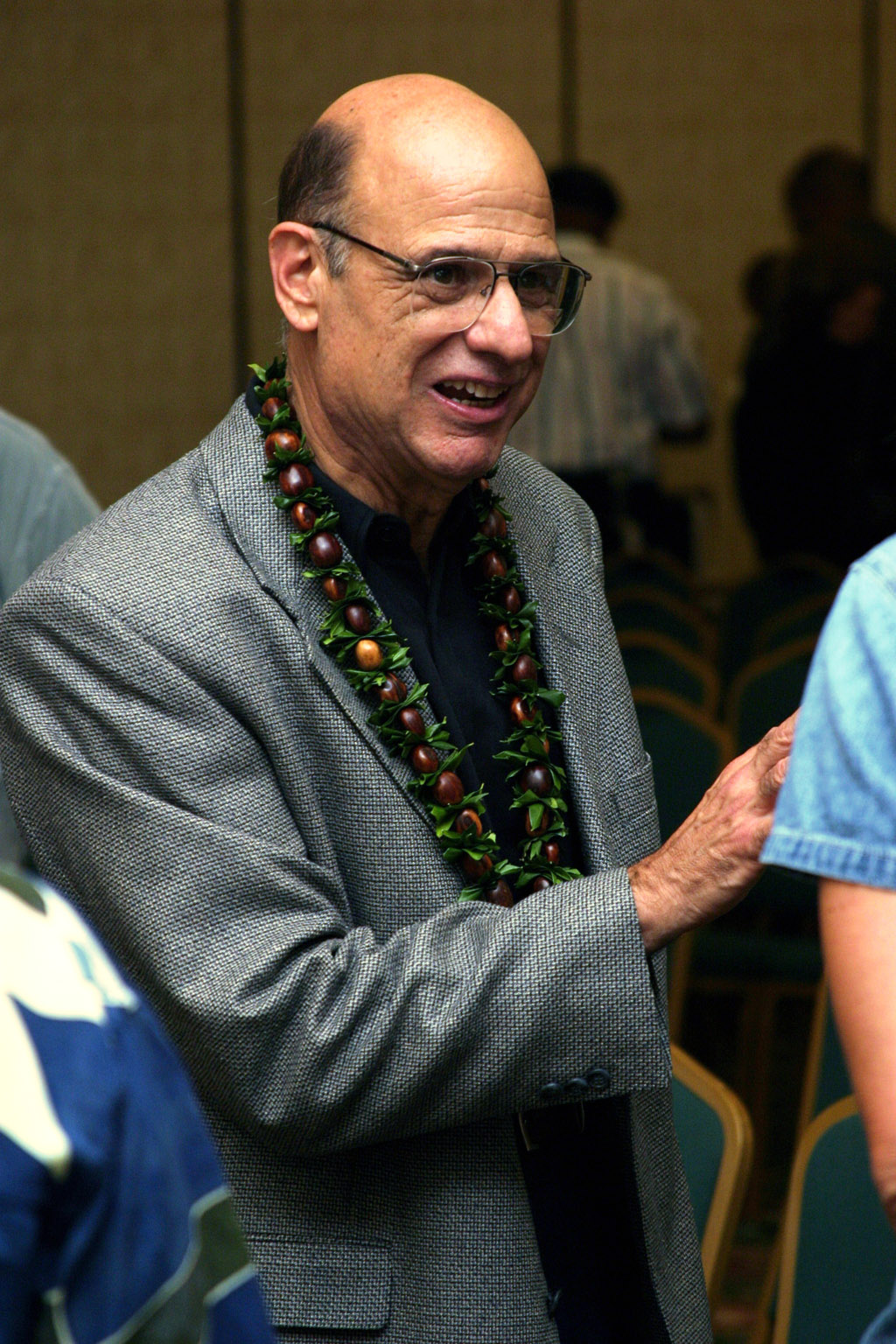 Tony Campolo: Author and speaker on political and religious topics